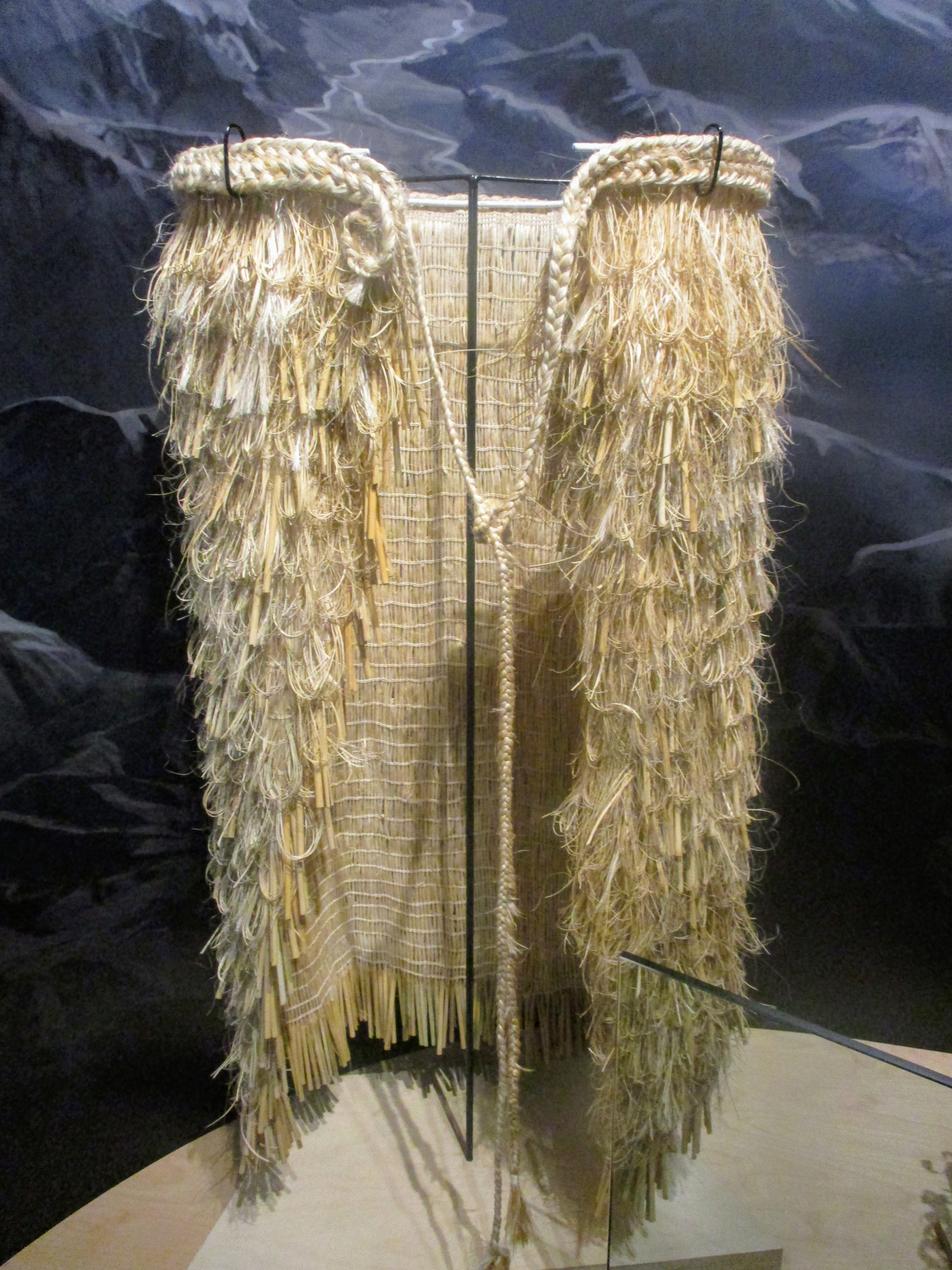 Māori rain cape (paki) made out of shredded Phormium tenax (harakeke), with outer layers of curdled twills and flat tags made from Cordyline australis (tī kōuka). Paula Rigby (Ngāi Tahu, Ngāi Tuahuriri, Ngāti Porou, Ngāti Kahungugnu)